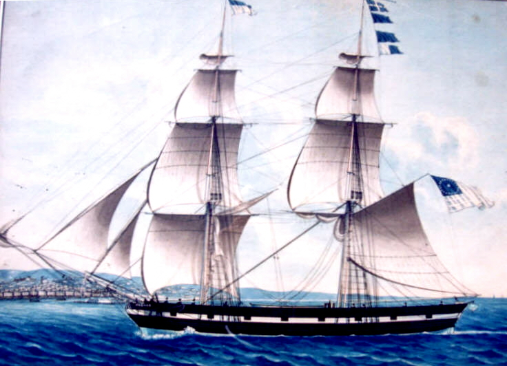 Brig Herald built by Ezra Weston and Son, Duxbury, Massachusetts